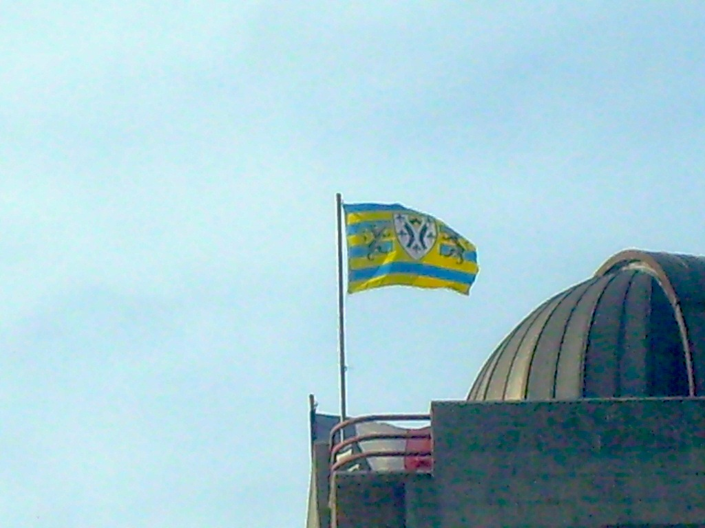 Flag of Cappelle-la-Grande